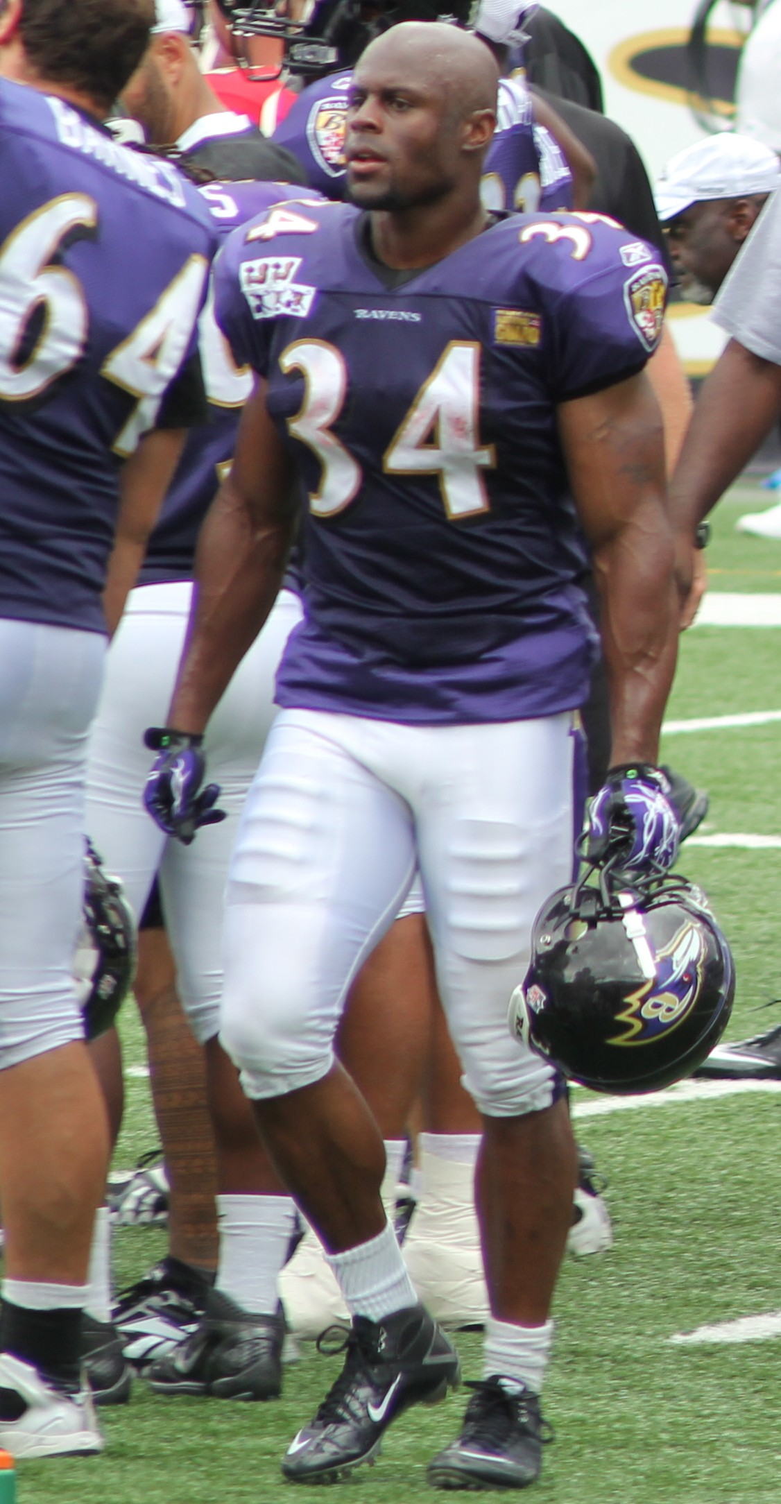 Jalen Parmele Practice at M&T Bank Stadium August 2011